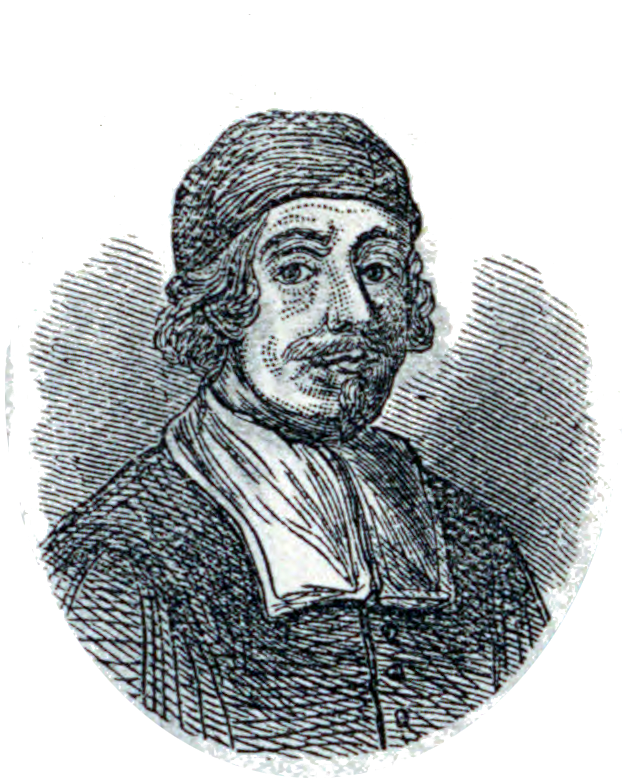 RobertTraill (junior) - Cranbrook from Scots' Worthies (Raw page was 660)